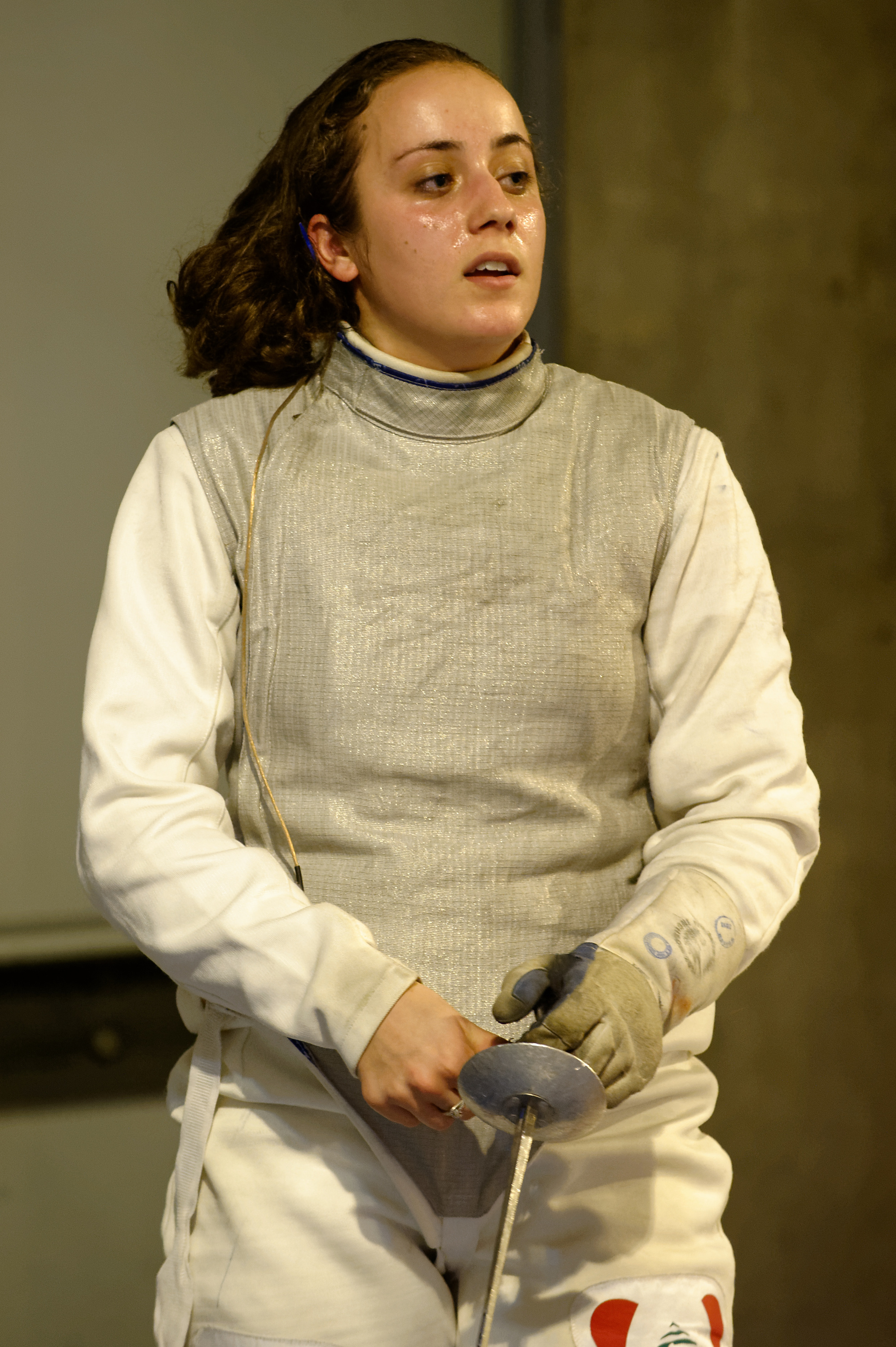 Lebanon's Mona Shaito at the pools stage of the 2015 Saint-Maur women's foil World Cup.